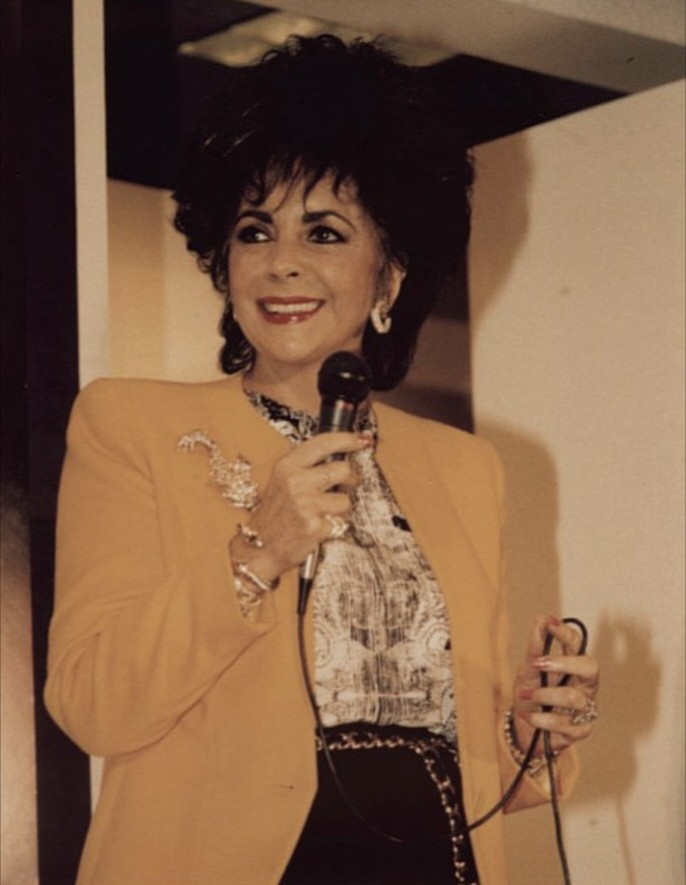 Title: [Elizabeth Taylor at Neiman Marcus store, Dallas] Date: October 1987 Part Of: J. Allen Hansley photographs Description: Elizabeth Taylor at Neiman Marcus store, North Park, Dallas. Taylor was promoting her fragrance, Passion. Physical Description: 1 photographic print: 10.7 x 8.7 cm. File: ag2006_0009_01_24_taylor_04_sm_opt.jpg Rights: Please cite Southern Methodist University, Central University Libraries, DeGolyer Library when using this image file. A high-quality version of this file may be obtained for a fee by contacting . For more information, see: View Texas: Photographs, Manuscripts, and Imprints